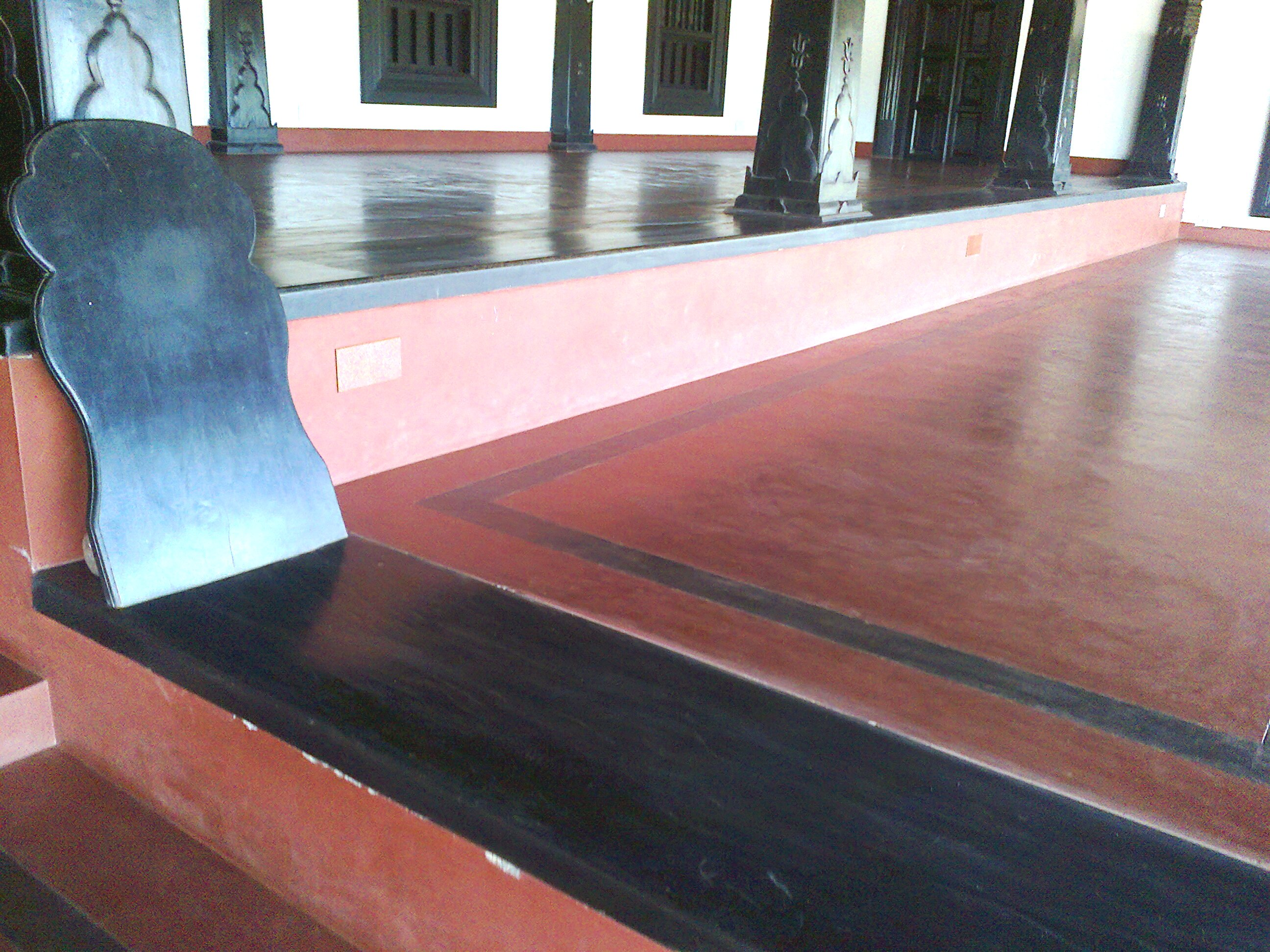 pilikula nisargadama at mangalore karnataka